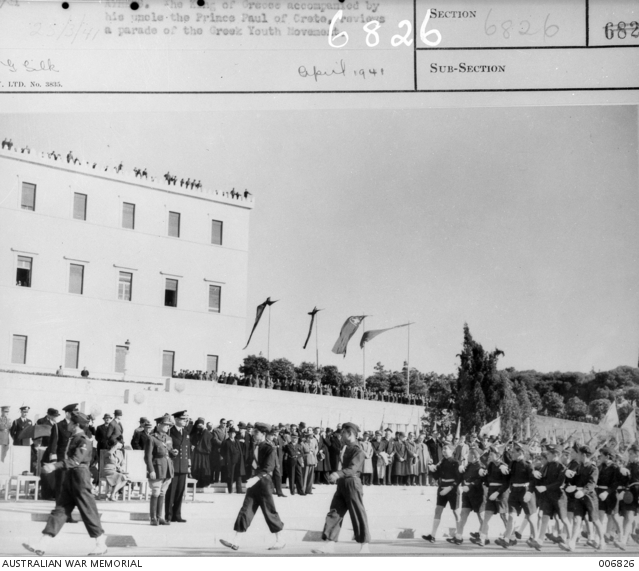 ATHENS. THE KING OF GREECE ACCOMPANIED BY HIS UNCLE THE PRINCE PAUL OF CRETE, REVIEWS A PARADE OF THE GREEK YOUTH MOVEMENT.